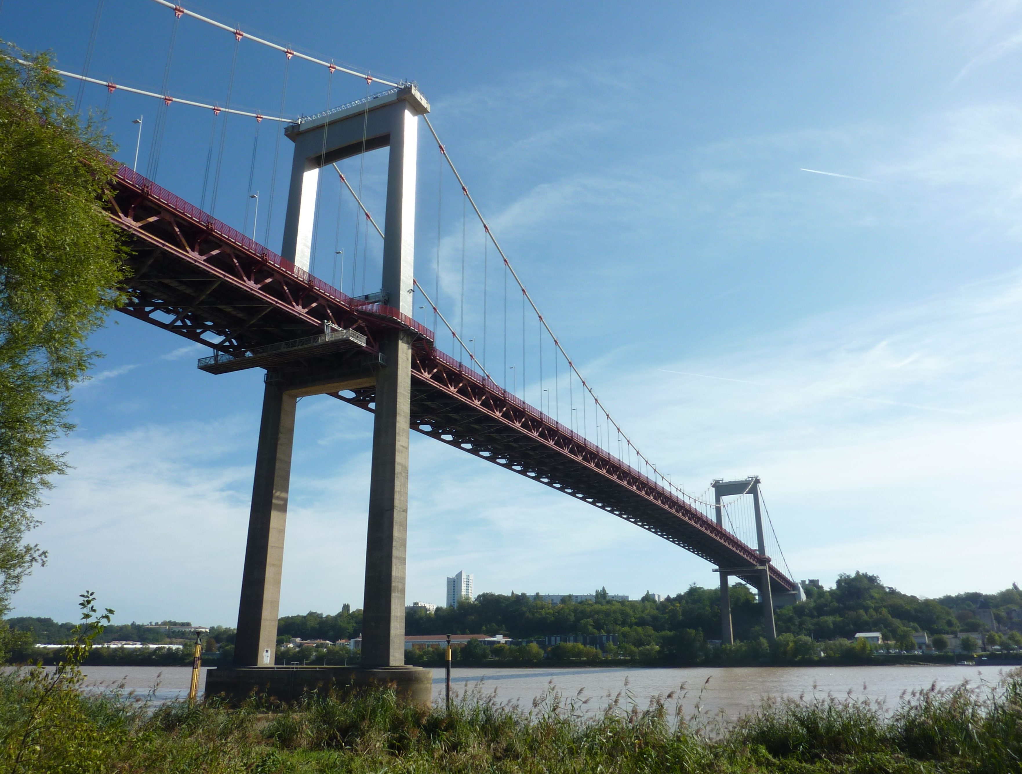 The Pont d'Aquitaine over the Garonne River at Bordeaux (Gironde)